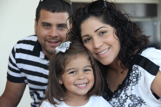 Veteran family seeking affordable housing.